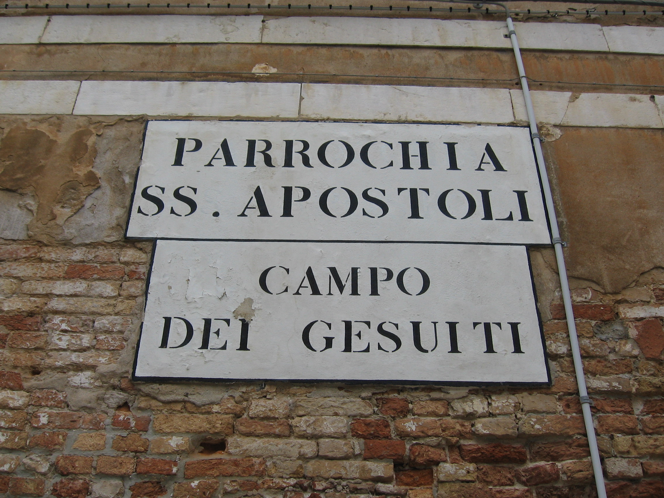 Street sign close to the Jesuit church, in Venice (Italy)